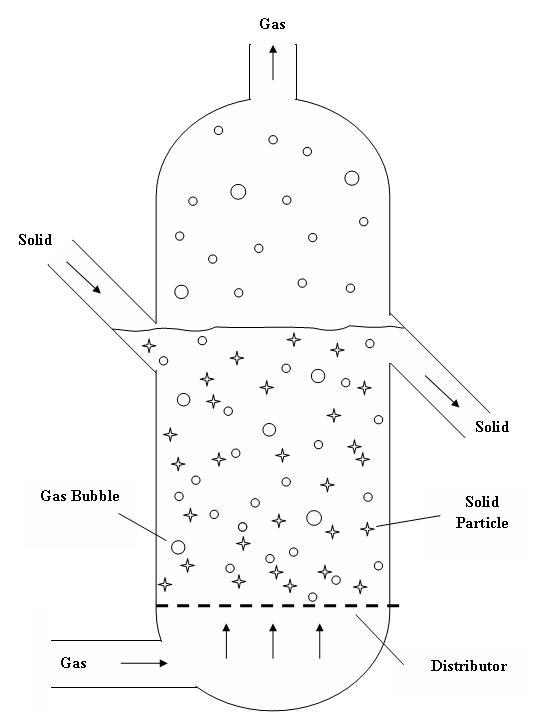 Basic Diagram of a Fluidized Bed Reactor